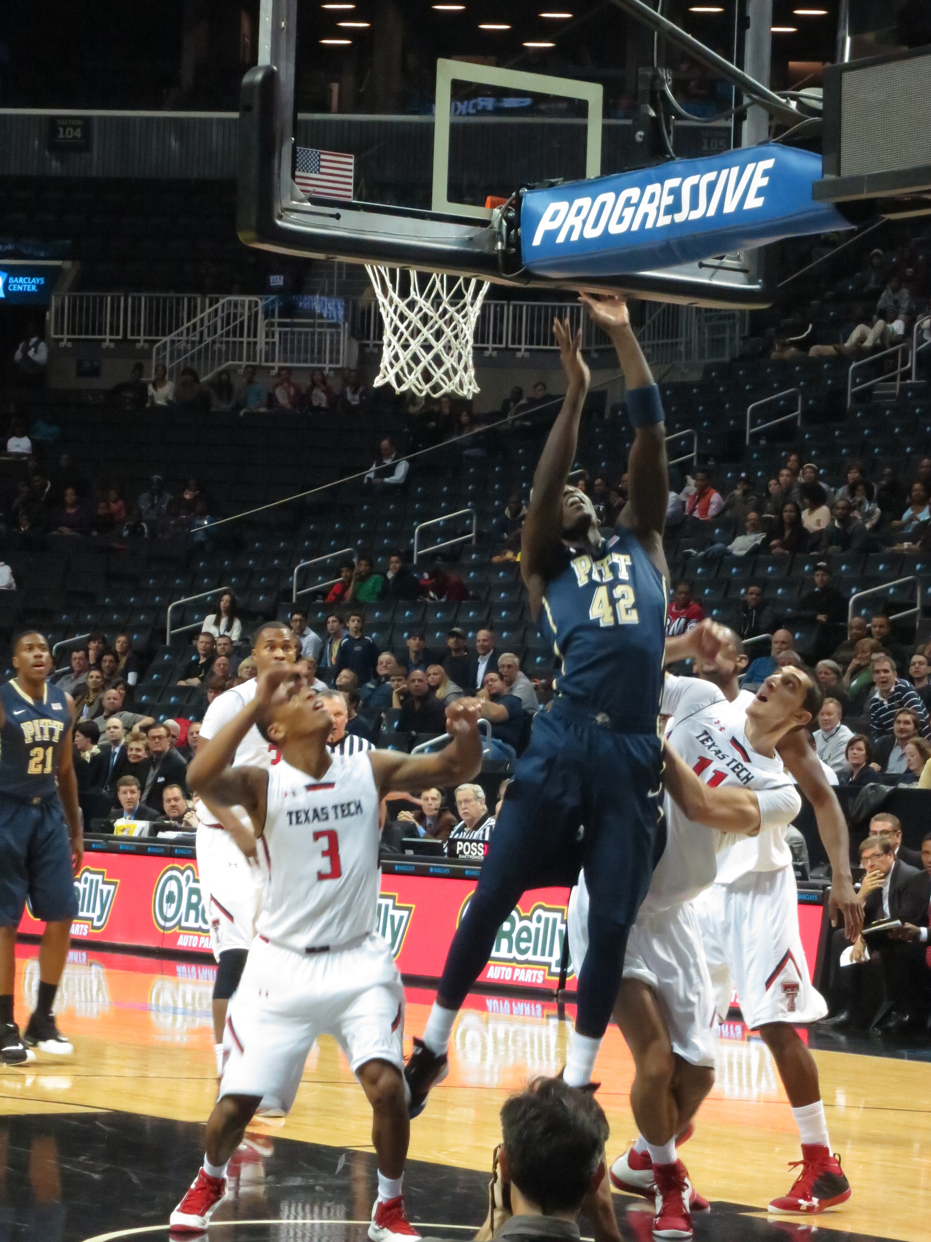 Talib Zanna (#42) of the Pitt Panthers playing against Texas Tech on November 25, 2013 in the Progressive Legends Classic at the Barclays Center in Brooklyn, NY. Pitt won the game 76-53.